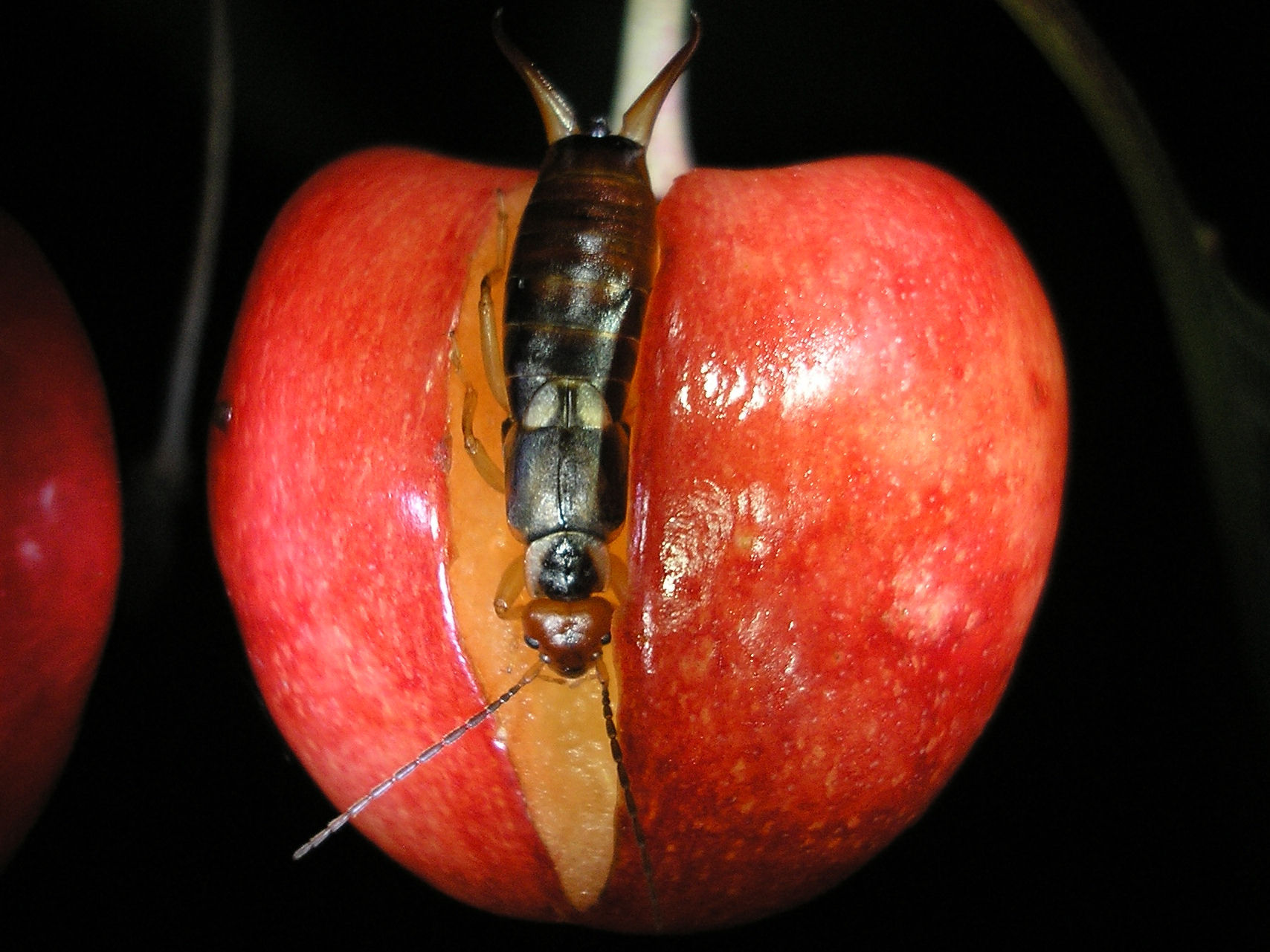 Female Earwig of species Forficula auricularia at night in a cherry Location: Norderstedt, Germany